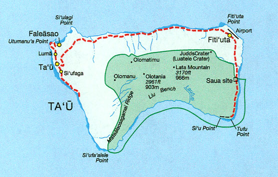 NPS map of Taʻū Island, American Samoa